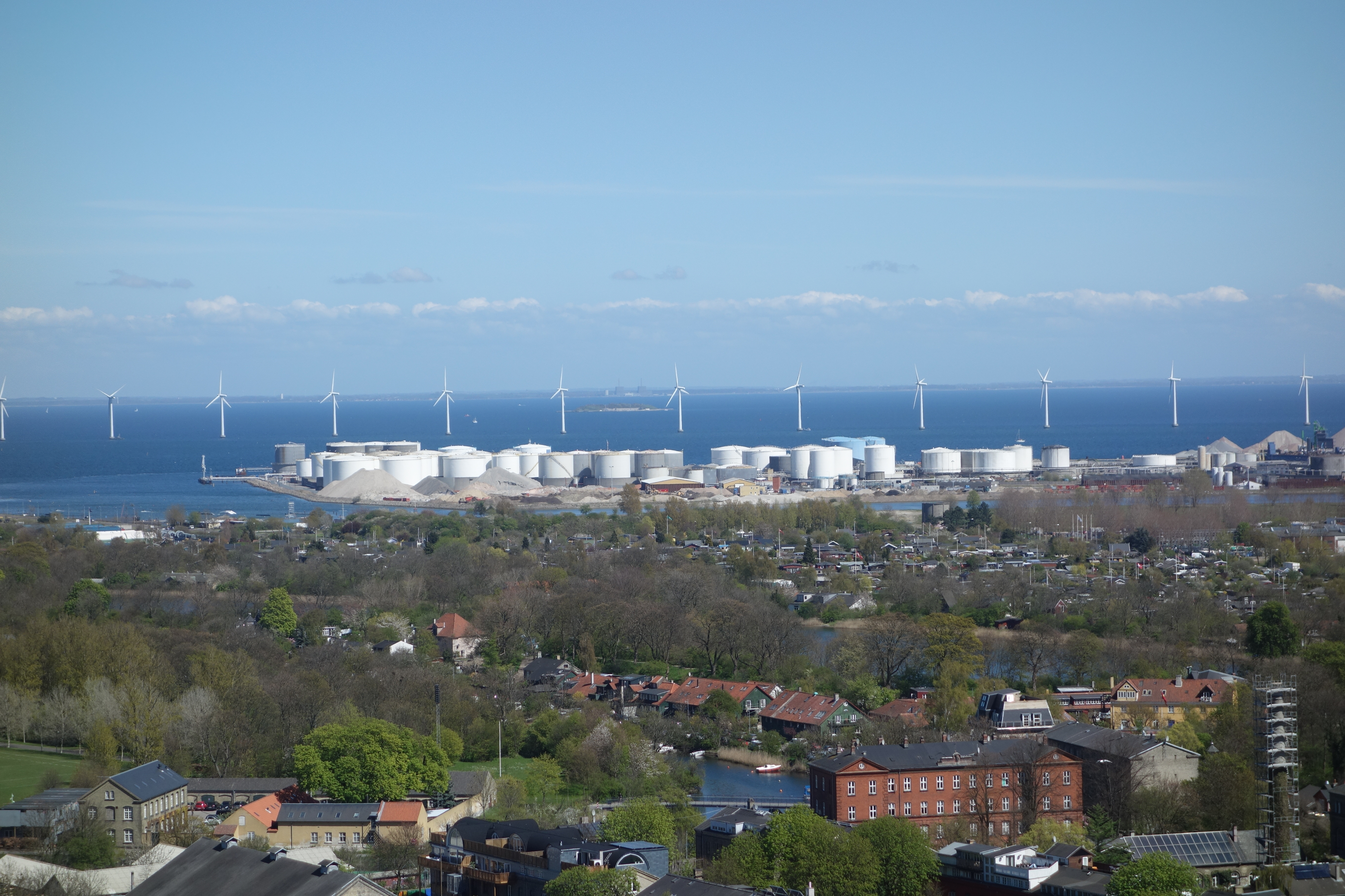 View of Vensinøen from The Church of Our Lady / Vor Frue Kirke in Copenhagen, Denmark